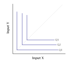 Isoquant map reflecting inputs that are perfect compliments